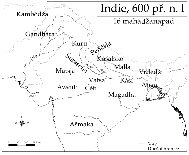 Map of Ancient Indian Mahajanapadas with their czech names. Source: [1]